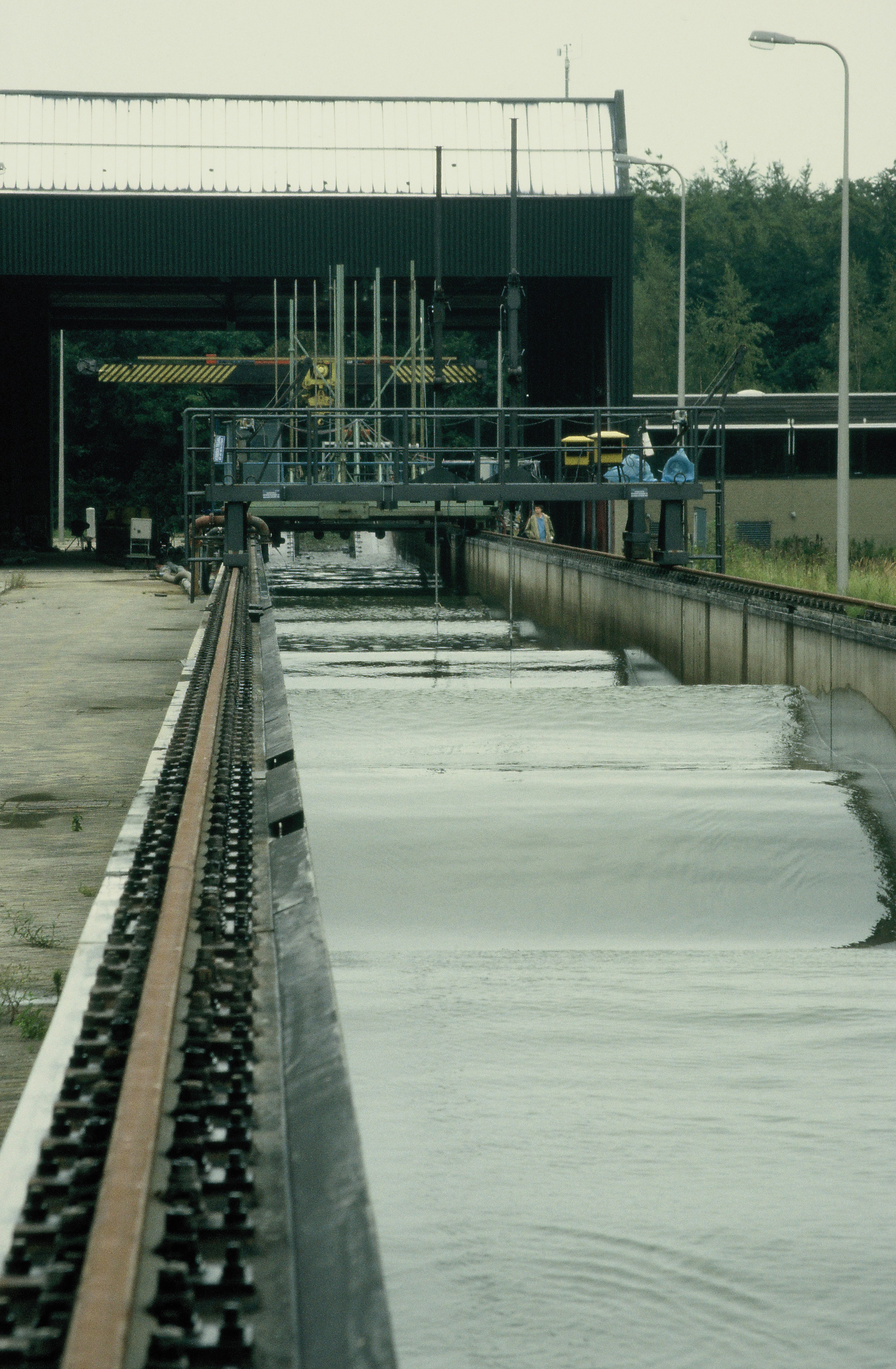 Deltaflume in the Netherlands in "De Voorst" where waves could be generated up to 2.5 m